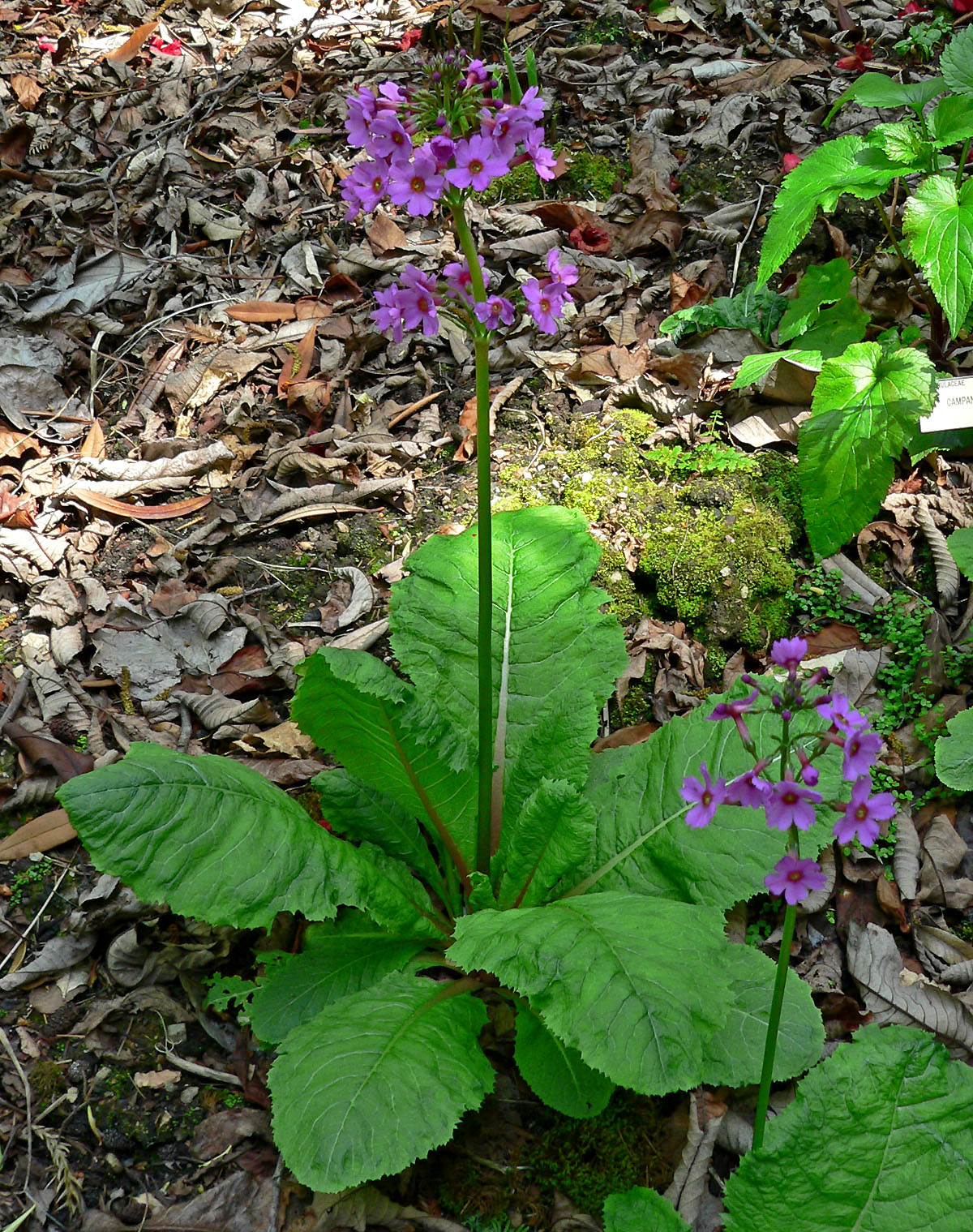 Primula japonica at the University of California Botanical Garden, Berkeley, California